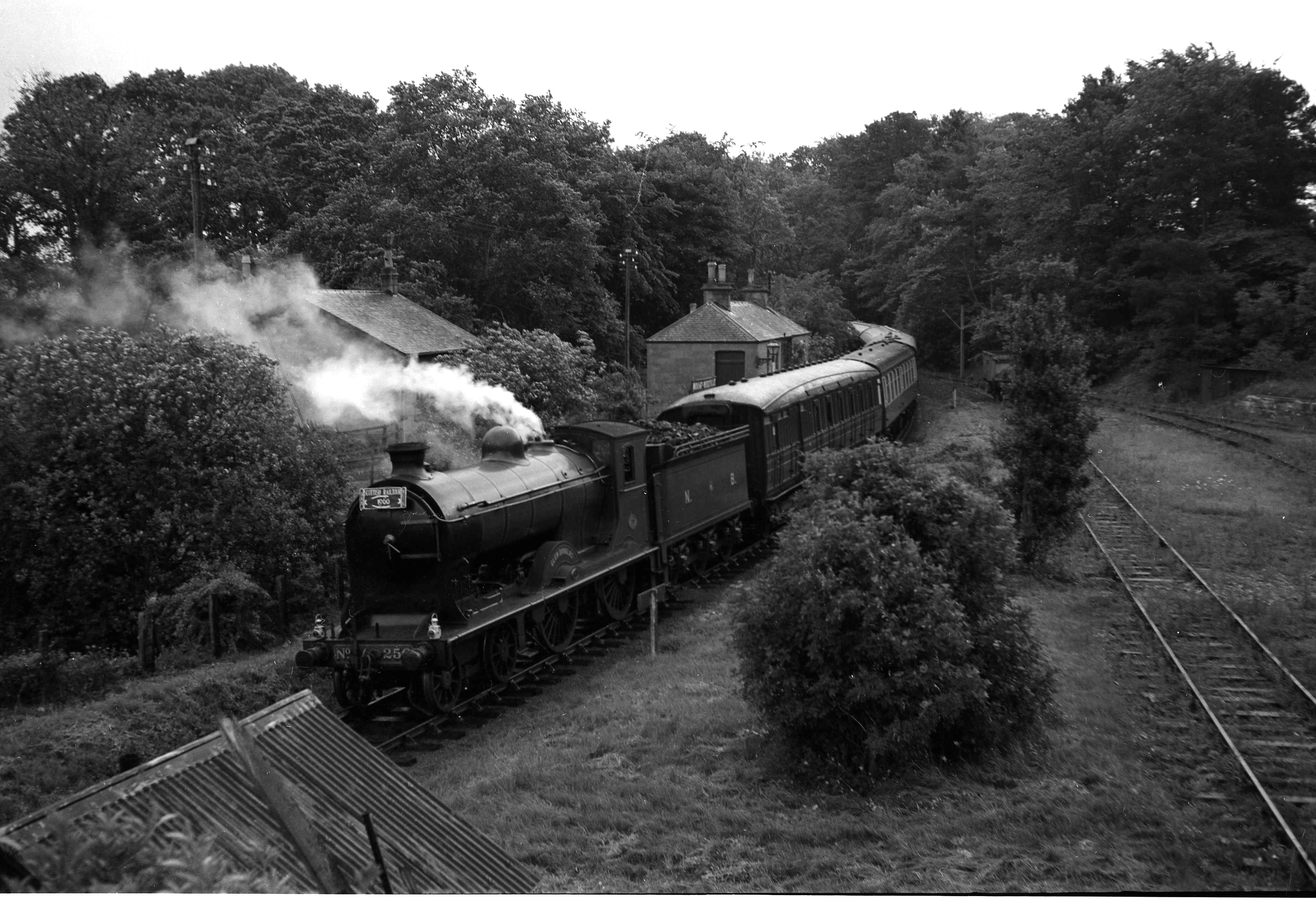 "Glenfinnan" leaving Largo on Fife Coast Railway Line